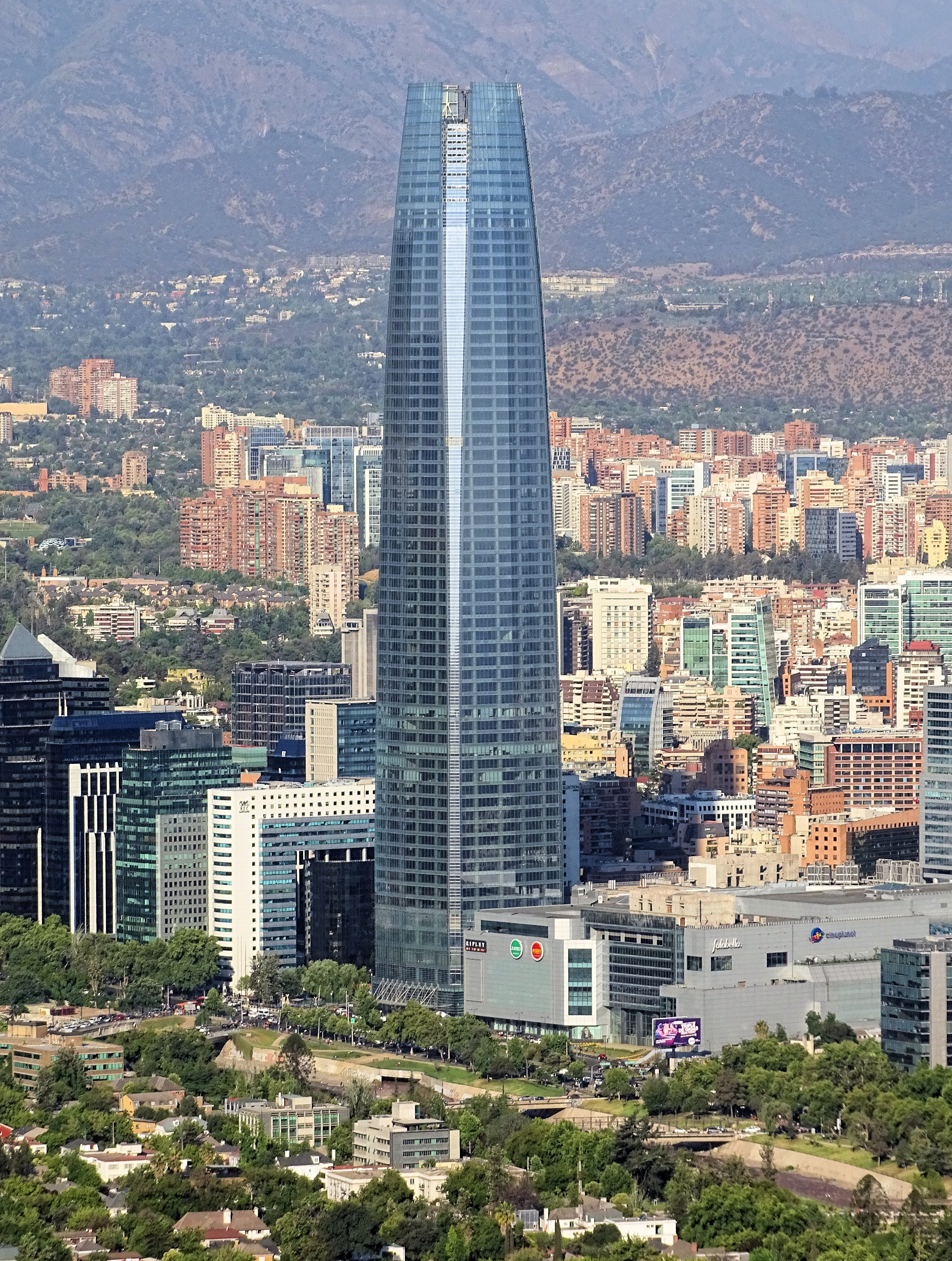 The Gran Torre Santiago seen from San Cristóbal Hill.